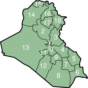 Governorates or provinces of Iraq; numbered. Iraq is divided into 18 governorates or provinces (Arabic: muhafazat, singular - muhafadhah, Kurdish: پاریزگه Pârizgah): Baghdad Arab, Turkman,Assyrian, Kurdish Salah ad Din Arab, Turkman Diyala Arab, Turkman,Kurdish Wasit Arab,Turkman Maysan Arab Al Basrah Arab Dhi Qar Arab Al Muthanna Arab Al Qadisyah Arab Babil Arab,Turkman Al Karbala Arab An Najaf Arab Al Anbar Arab Ninawa Arab,Turkman, Assyrian, Kurdish Dahuk Assyrian,Kurdish,Arab Arbil Turkman,Kurdish,Assyrian,Arab At Ta'mim Turkman, Kurdish,Arab,Assyrian As Sulaymaniyah Kurdish,Assyrian The constitutionally recognized Kurdistan Autonomous Region includes parts of a number of northern provinces, and is largely self-governing in internal affairs.